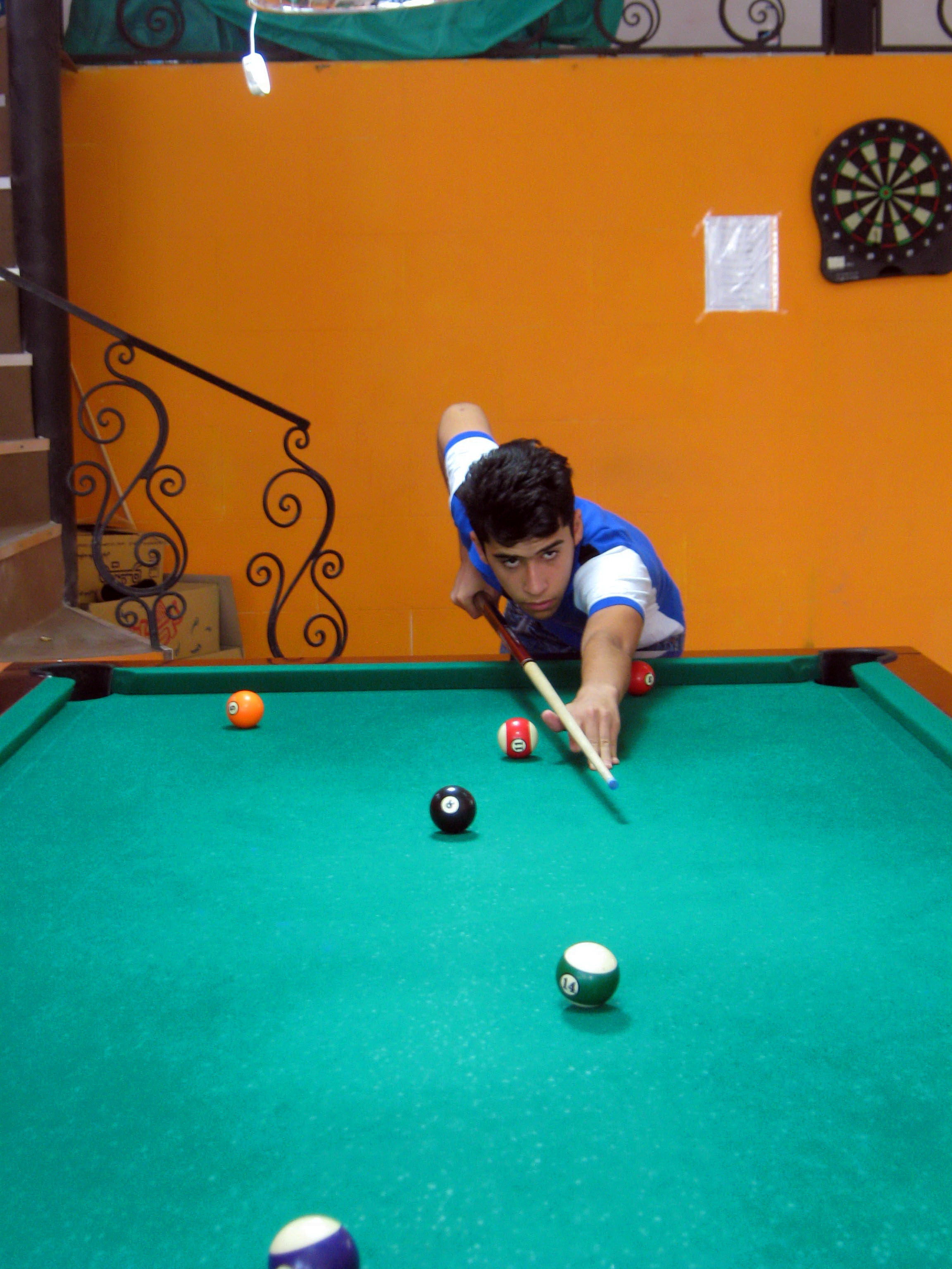 Atlantis billiard club - near Be'sat sq - Nishapur